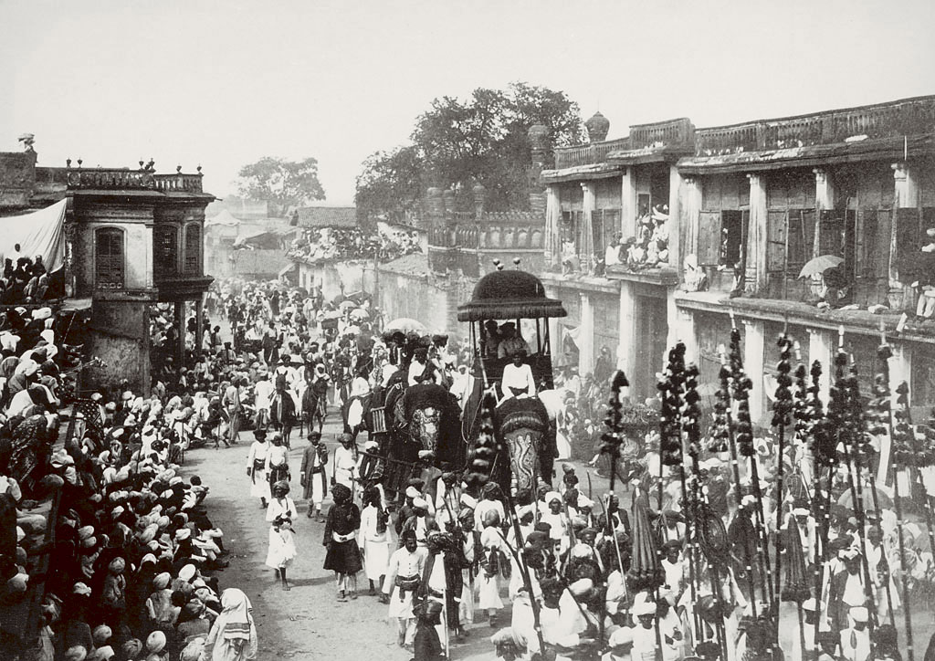 Mohurrum Festival